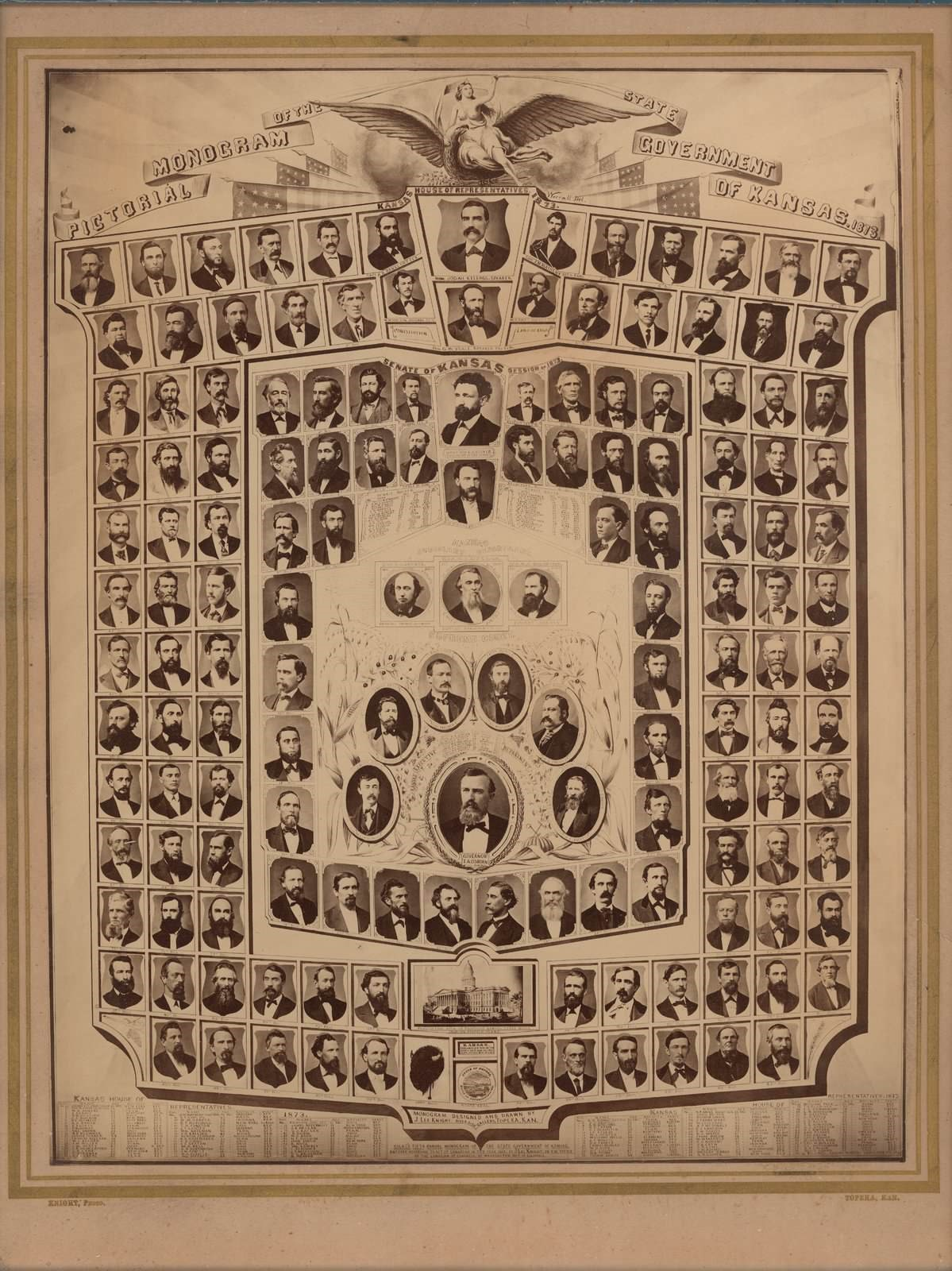 poster monogram of Kansas Legislature 1873 with photographs of members